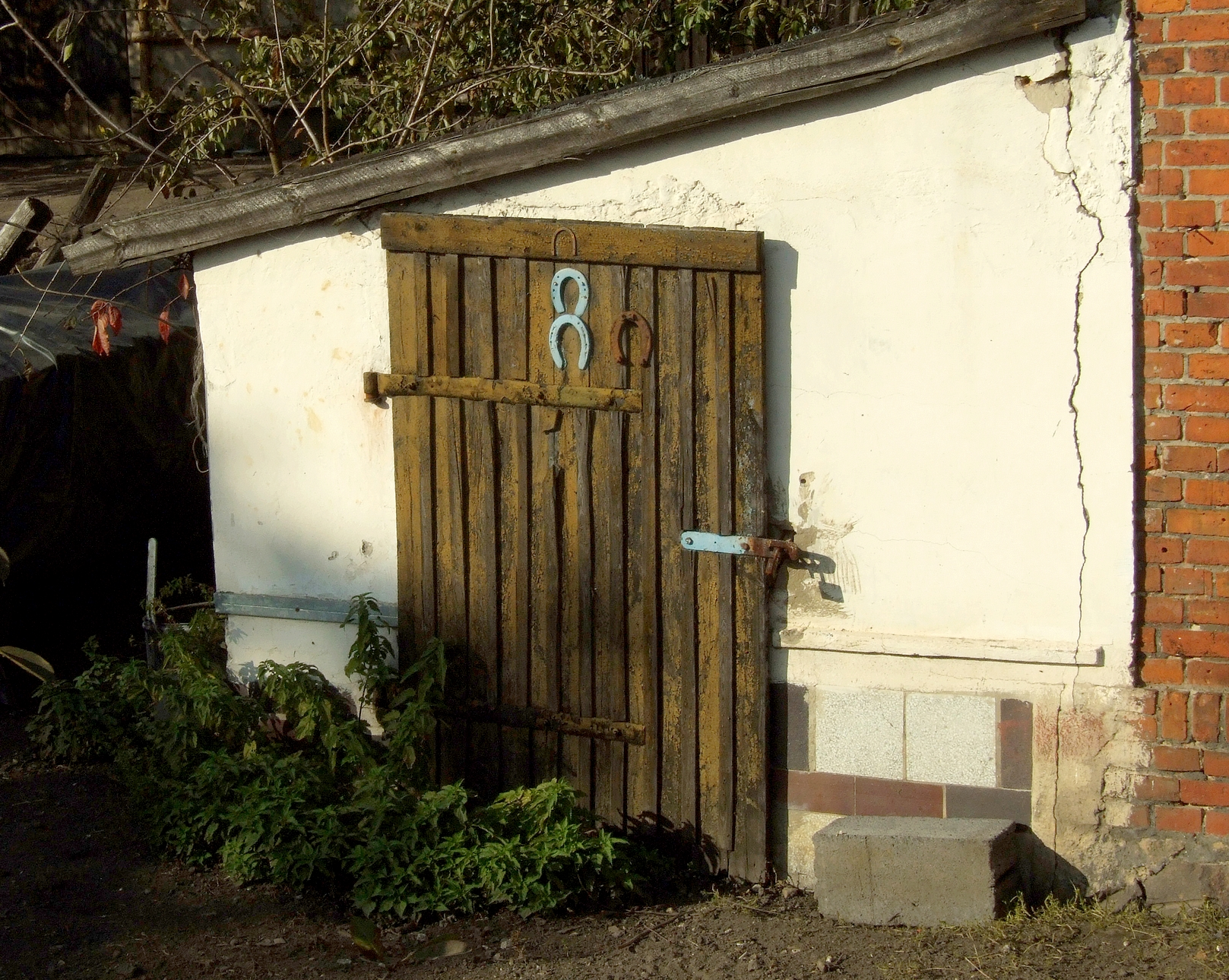 Horseshoe believed to bring good luck, nailed to a barn door. A village in Poland. Podkowy przynoszące szczęście Autor: Mohylek 16:18, 2 November 2006 (UTC)